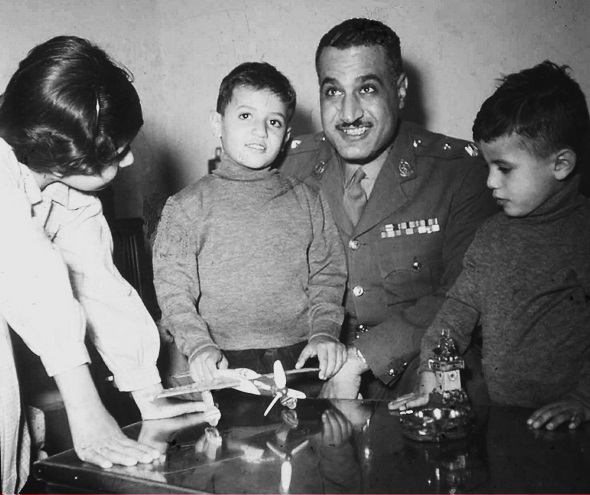 Gamal Abdel Nasser (third from left) with his children Mona (first from left), Khaled (second from left) and Abdel Hamid (fourth from left). Image's levels have been altered